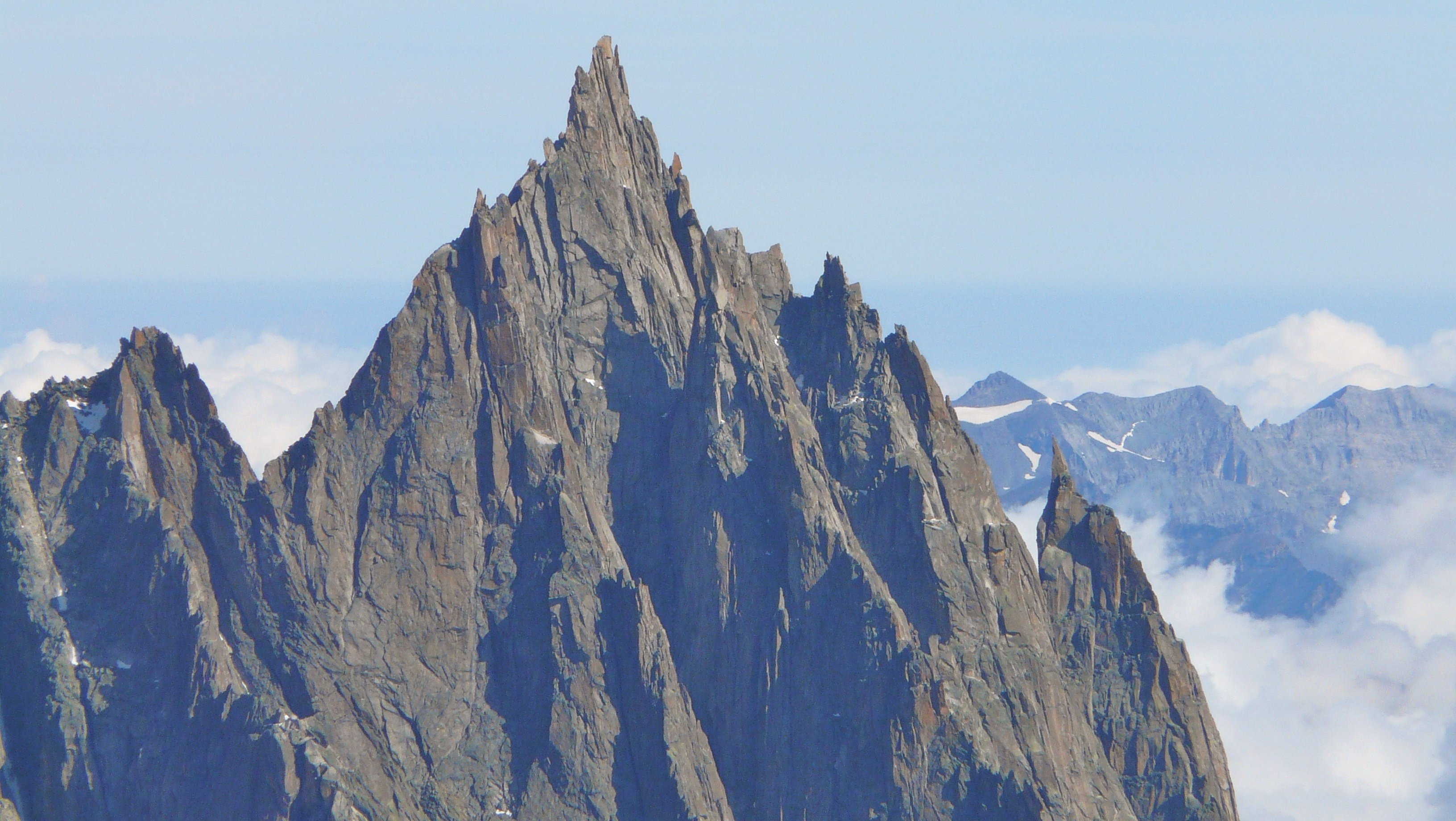 Aiguille du Grépon (3,482 m) as seen from Punta Helbronner in 2009 July.